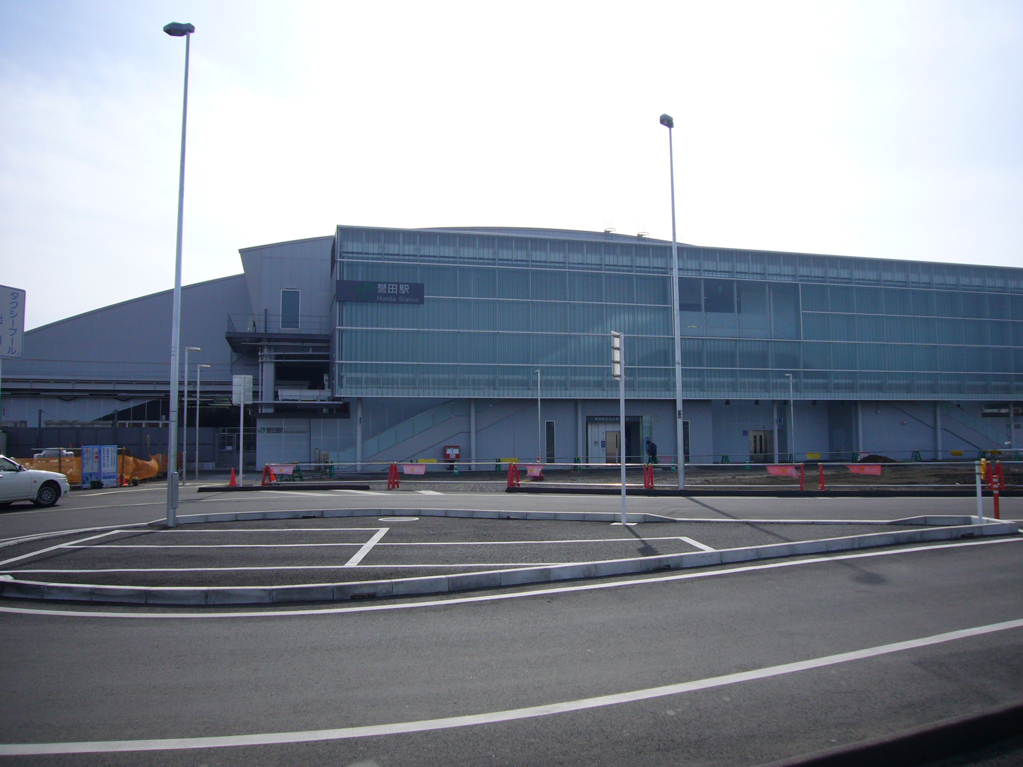 Honda Station north exit, Midori-ku, Chiba, Japan